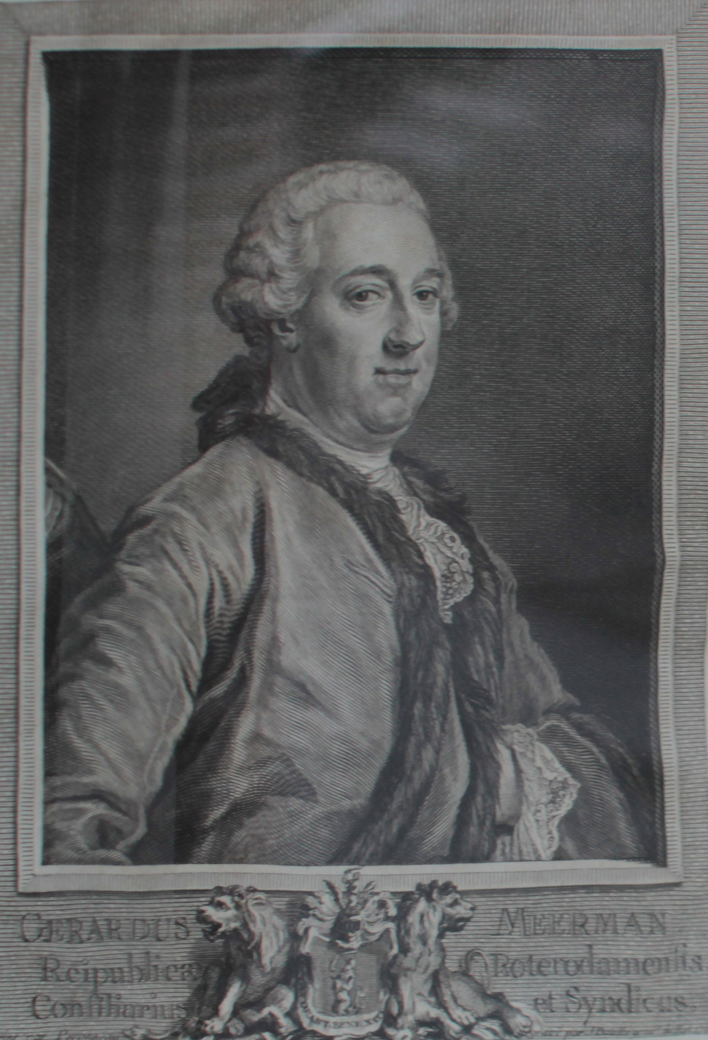 Image by Jean Baptist Perroneau (1715-1783), of the title page of Origines Typographicae, original edition 1765, by Gerard Meerman (1722-1771).